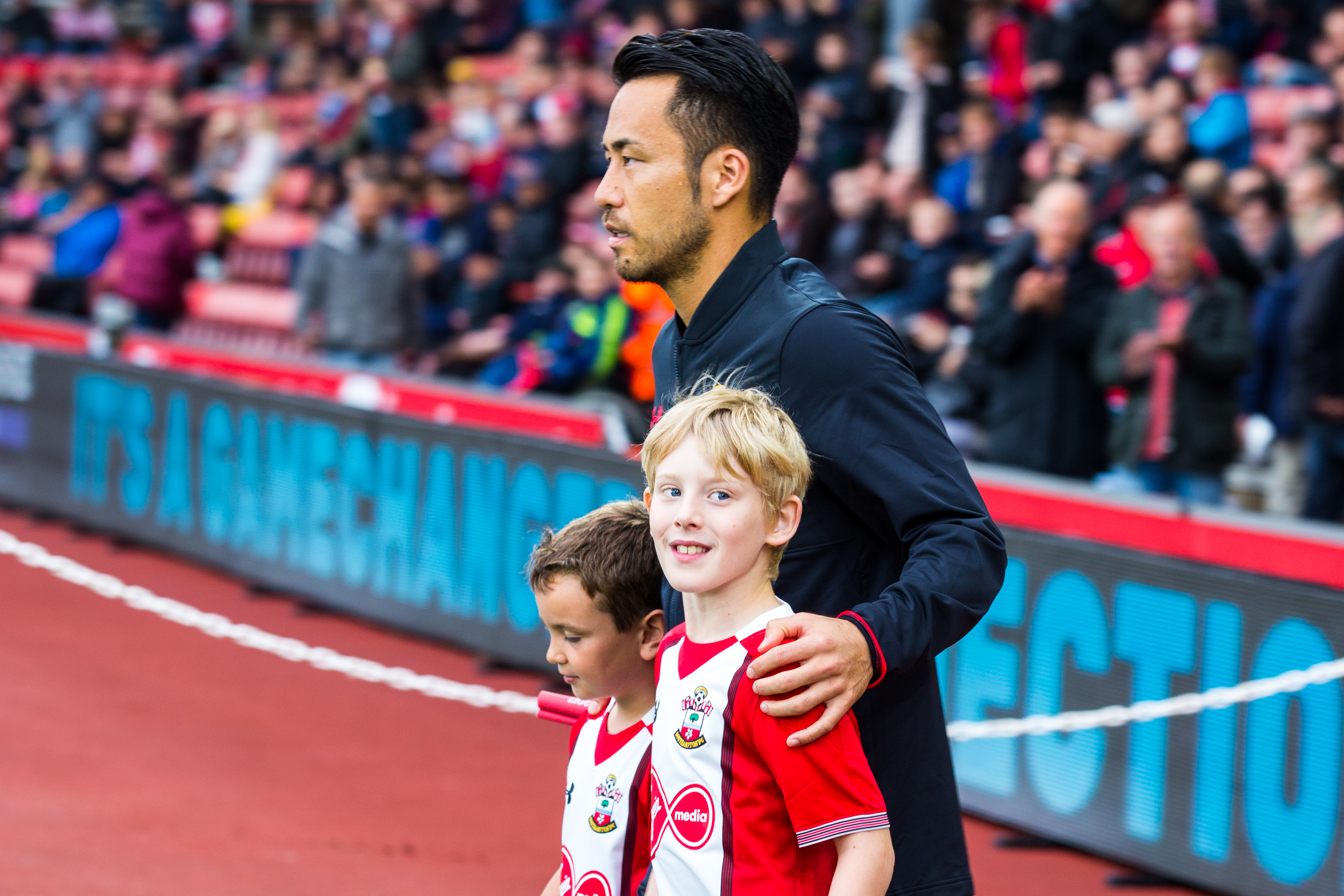 Pre-season friendly Wednesday 2 August 2017 Image by Oscar Rodriguez